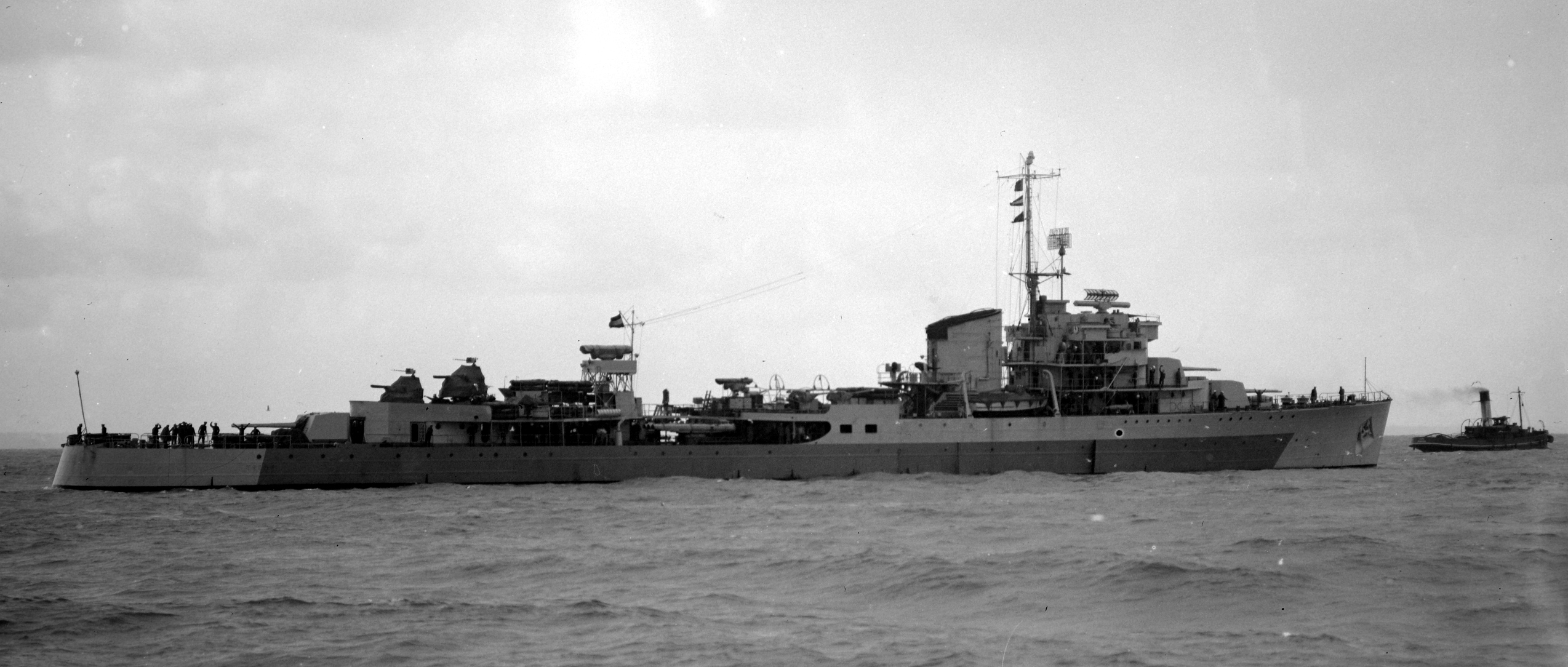 HMNLS Tromp